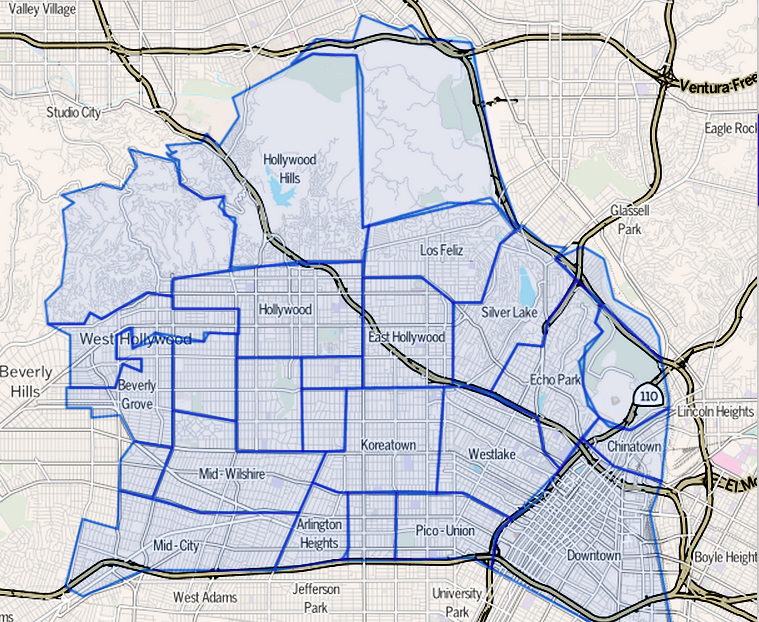 Map of Central Los Angeles, California Other information Boundary map as drawn by the Los Angeles Times on a CC-by-SA background. Note at bottom right of map on the L.A. Times website noted above says "CC-by-SA" (which gives permission to use the map). There is a link there to which explains the meaning thereof. The base map is credited to The Times spells all this out at